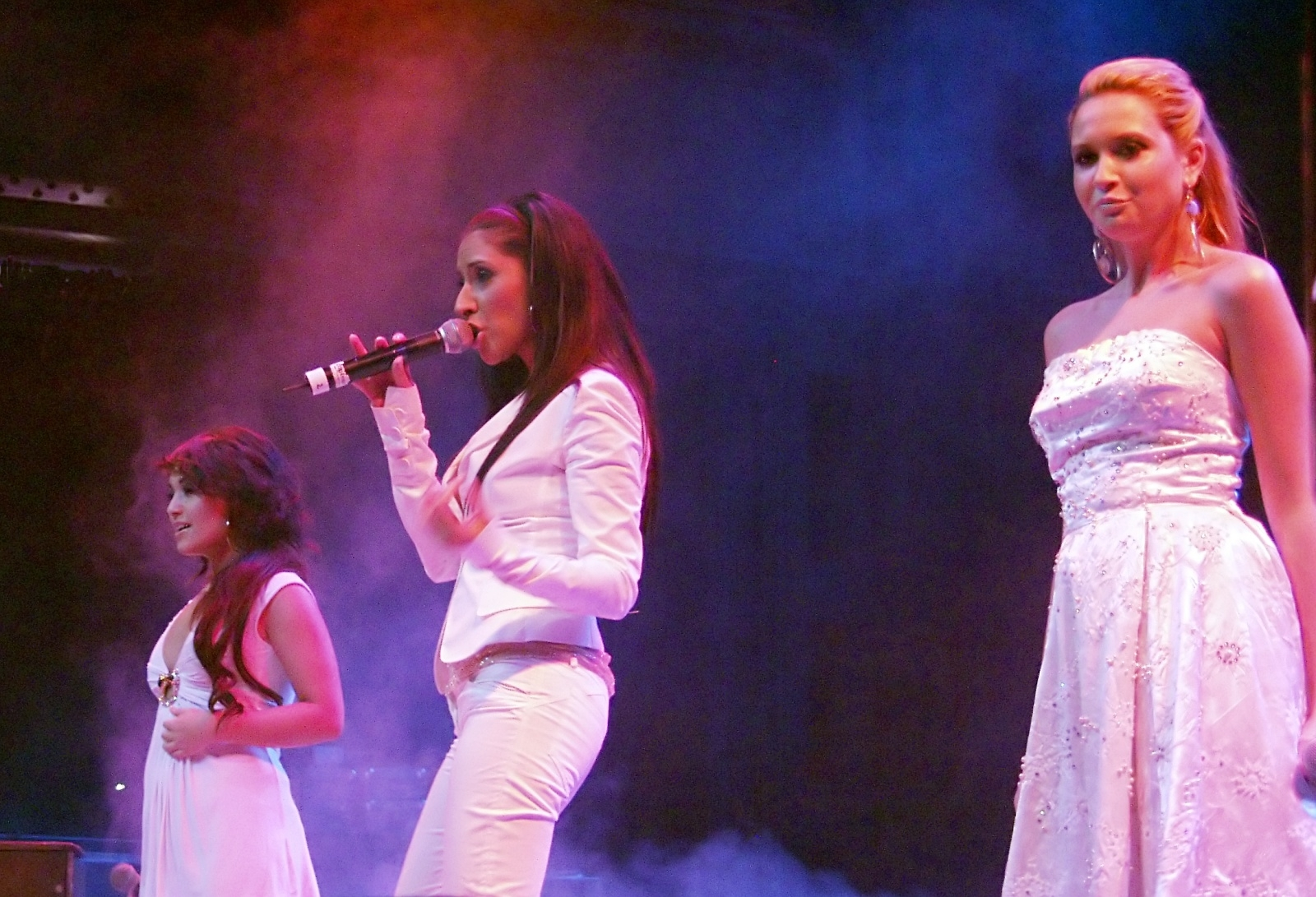 Girlgroup Monrose: Bahar Kızıl, Senna Guemmour, Mandy Capristo perfom on the charity concert "Cover me" at Palladium, Cologne, Germany.